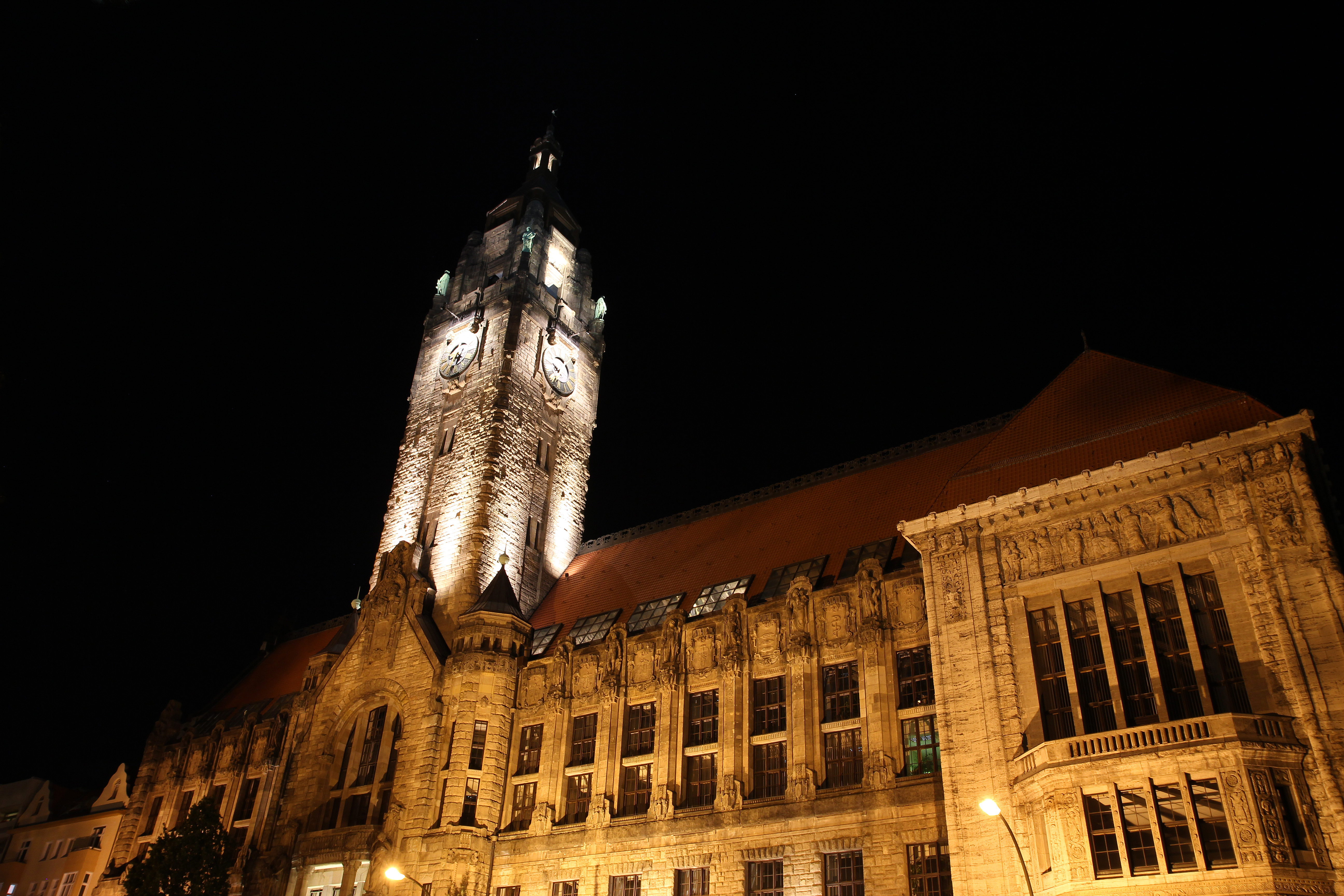 City hall of Berlin Charlottenburg-Wilmersdorf at night, 2010 Das Rathaus Charlottenburg angestrahlt bei Nacht, Berlin, 2010